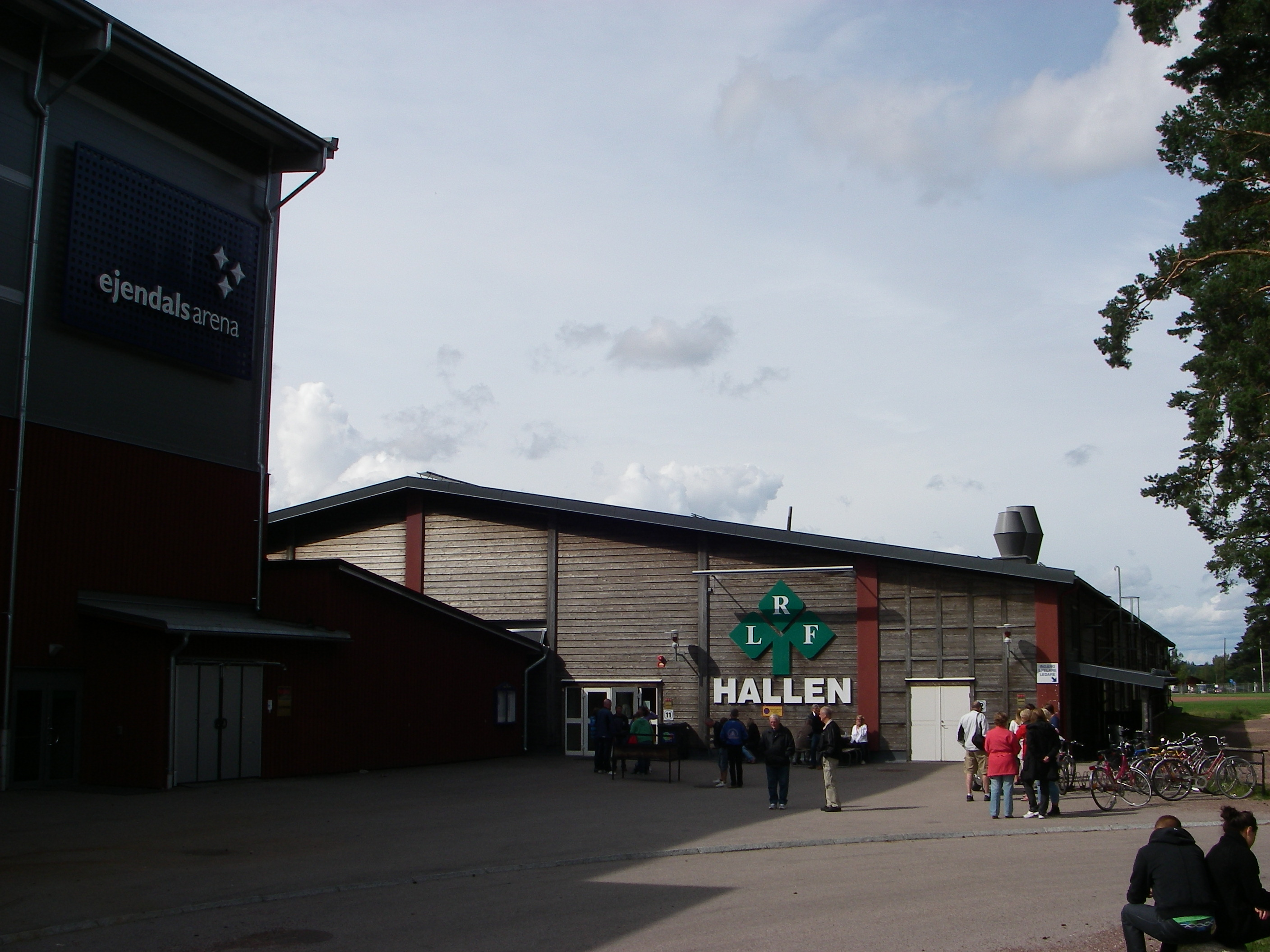 Ice hockey arenas Ejendals Arena and the smaller LRF-Hallen in Leksand, Sweden.